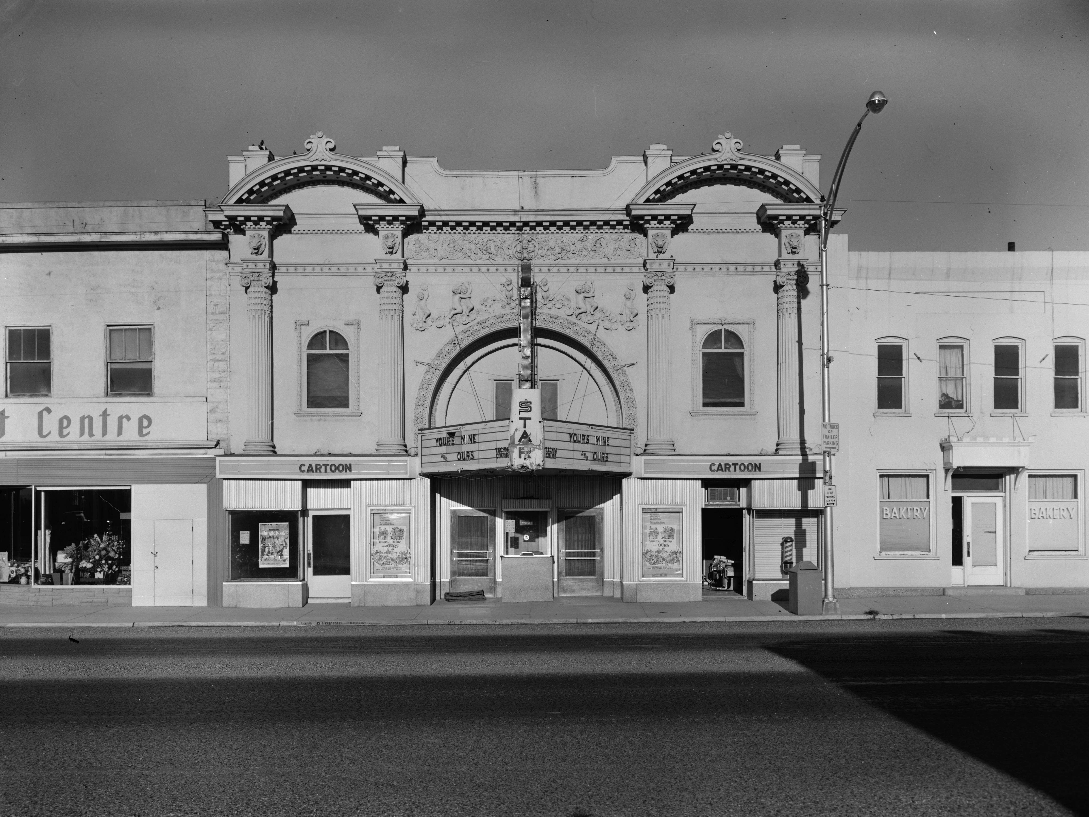 Front of the Casino Theatre, located at 78 S. Main Street in Gunnison, Utah, United States. Built in 1912, the theater is listed on the National Register of Historic Places.